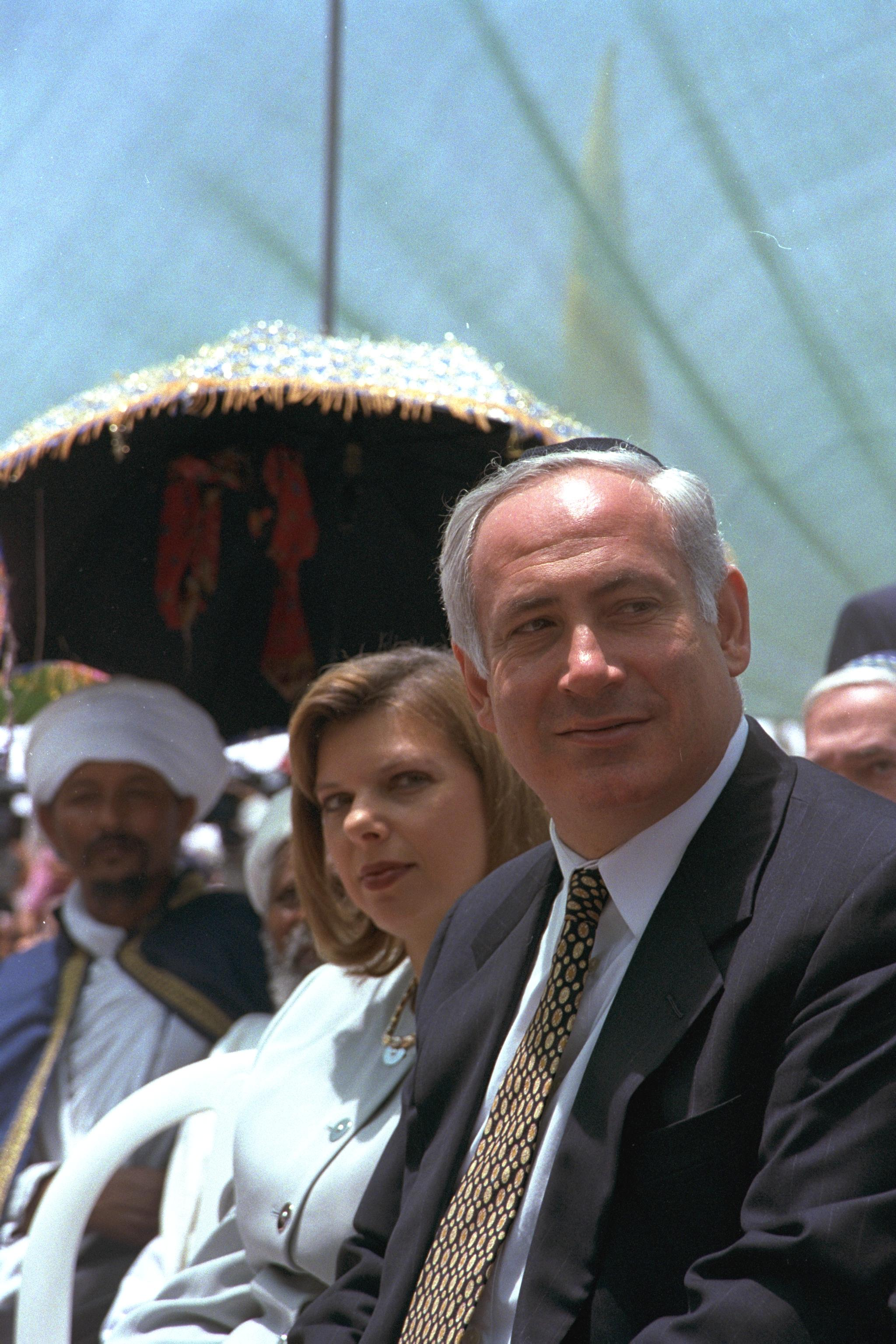 PM BENJAMIN NETANYAHU AND HIS WIFE SARA ATTEND THE ETHIOPIAN SIJD FESTIVAL IN KIBBUTZ RAMAT RACHEL IN JERUSALEM, MARKING THE ETHIOPIAN IMMIGRATION TO ISRAEL.